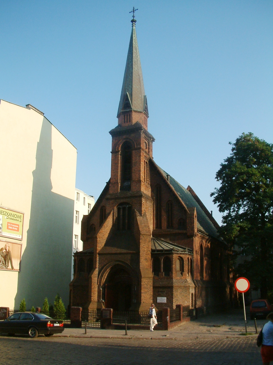 Methodist Church of Holly Cross in Poznań